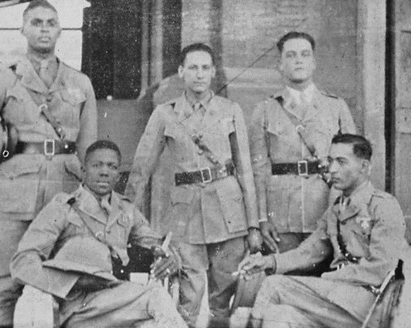 officers of the Haitian gendarmerie pictured in 1926